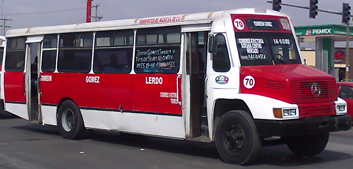 Brand: Mercedes Benz Body: Catosa Pacífico Model: ???? Enterpise: Transportes del Nazas, S.A. de C.V. Economical number: 70 Route: Torreón-Gómez-Cumbres